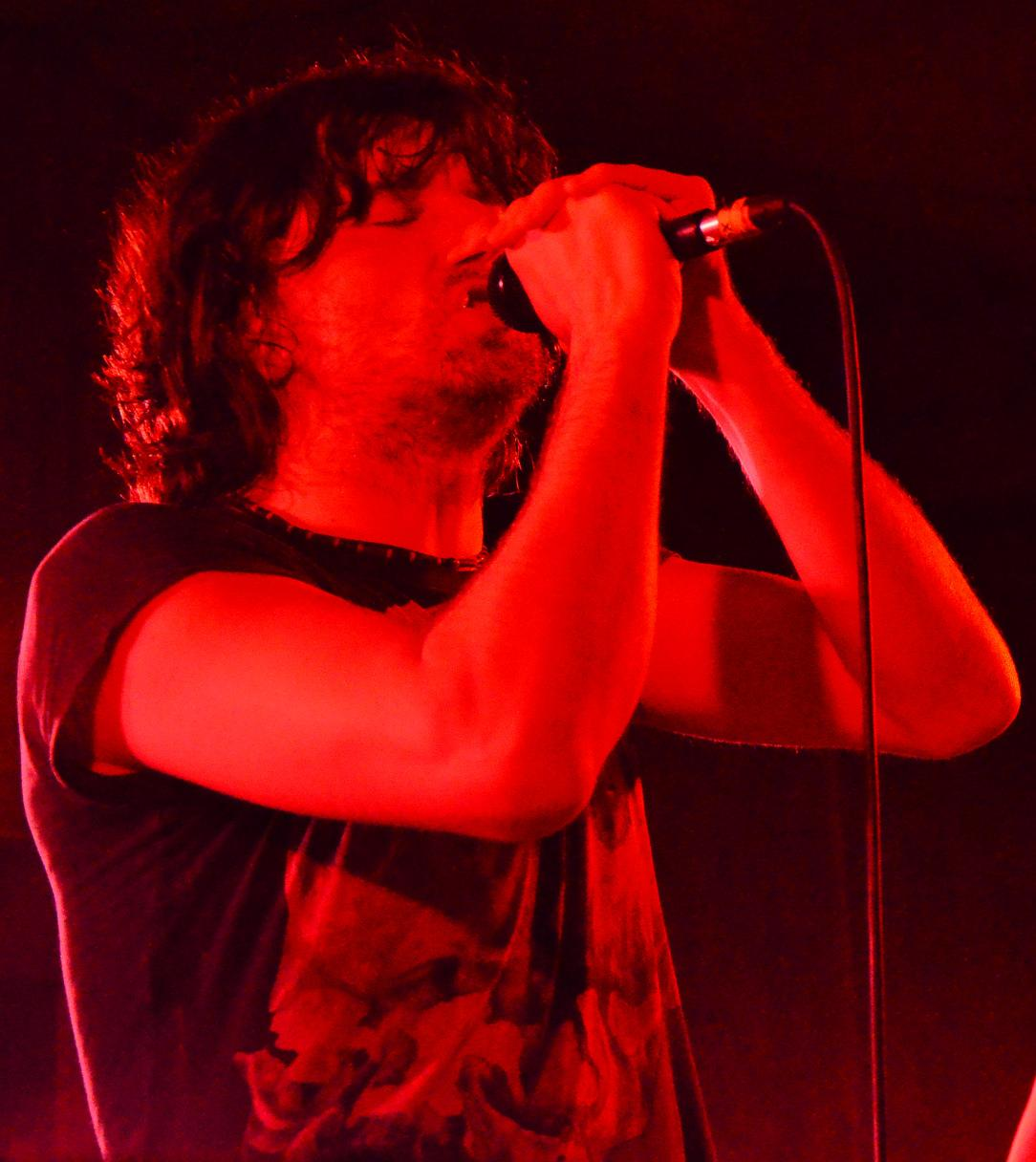 Danny McNamara on stage with Embrace.